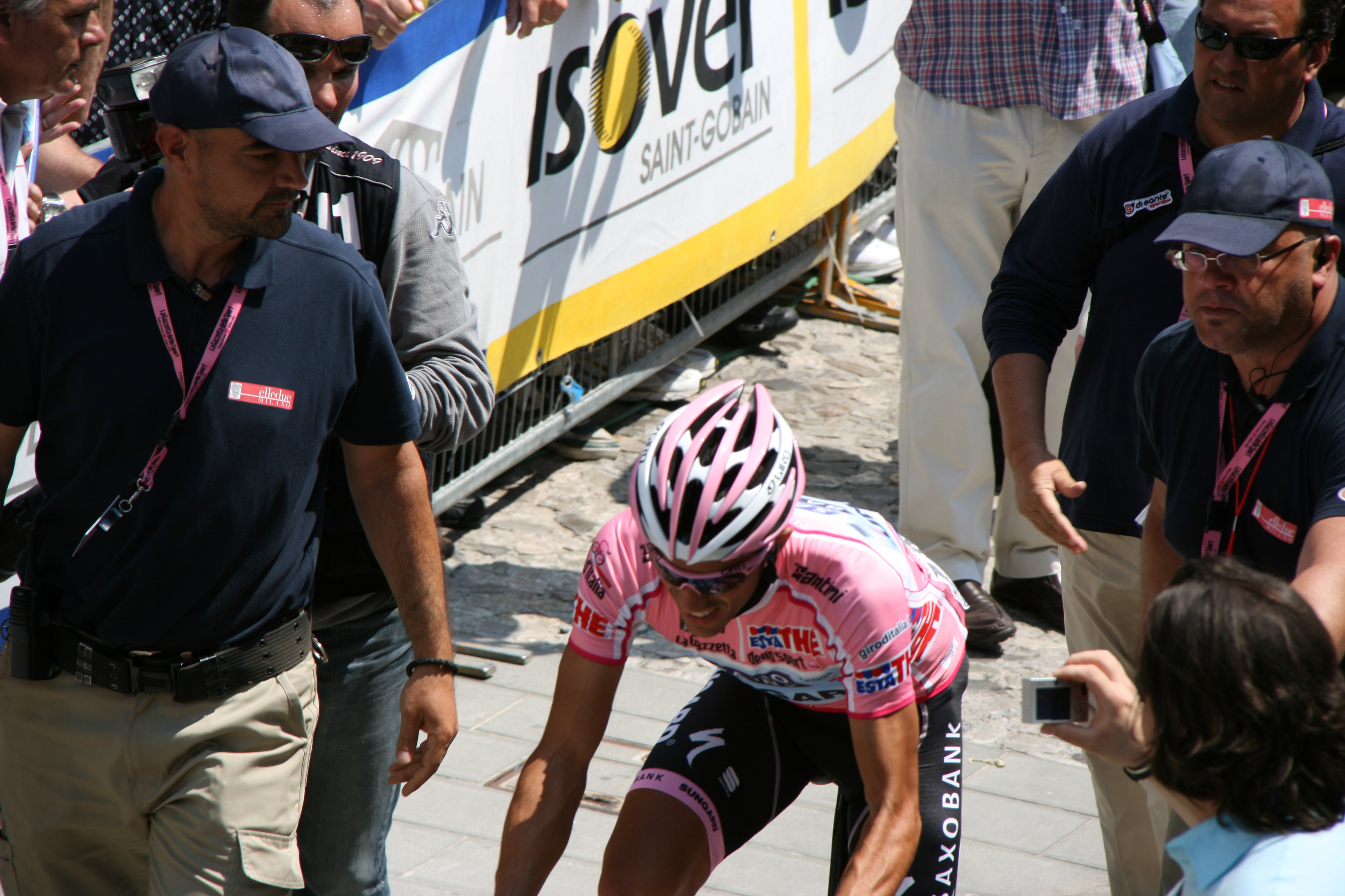 Alberto Contador at the Giro d'Italia 2011.